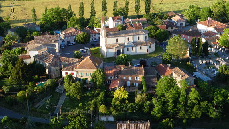 Paulhac in Haute Garonne